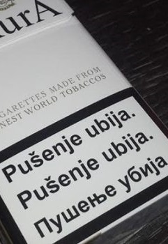 Written on cigarette boxes as a health warning from Bosnia and Herzegovina. It repeats "smoking kills" twice in the Latin script and once in Cyrillic, all spelled identically.